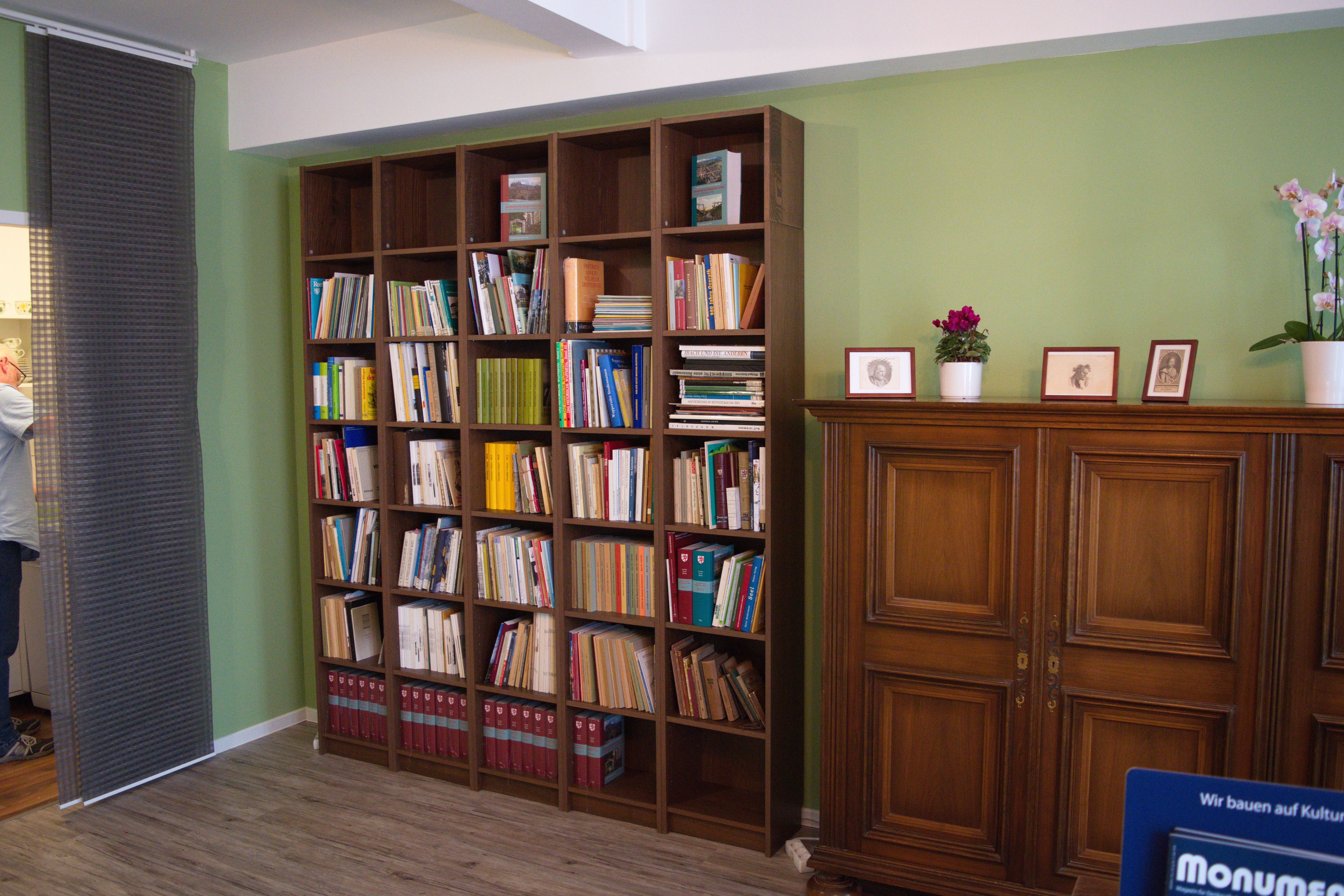 Hofaue, Wuppertal